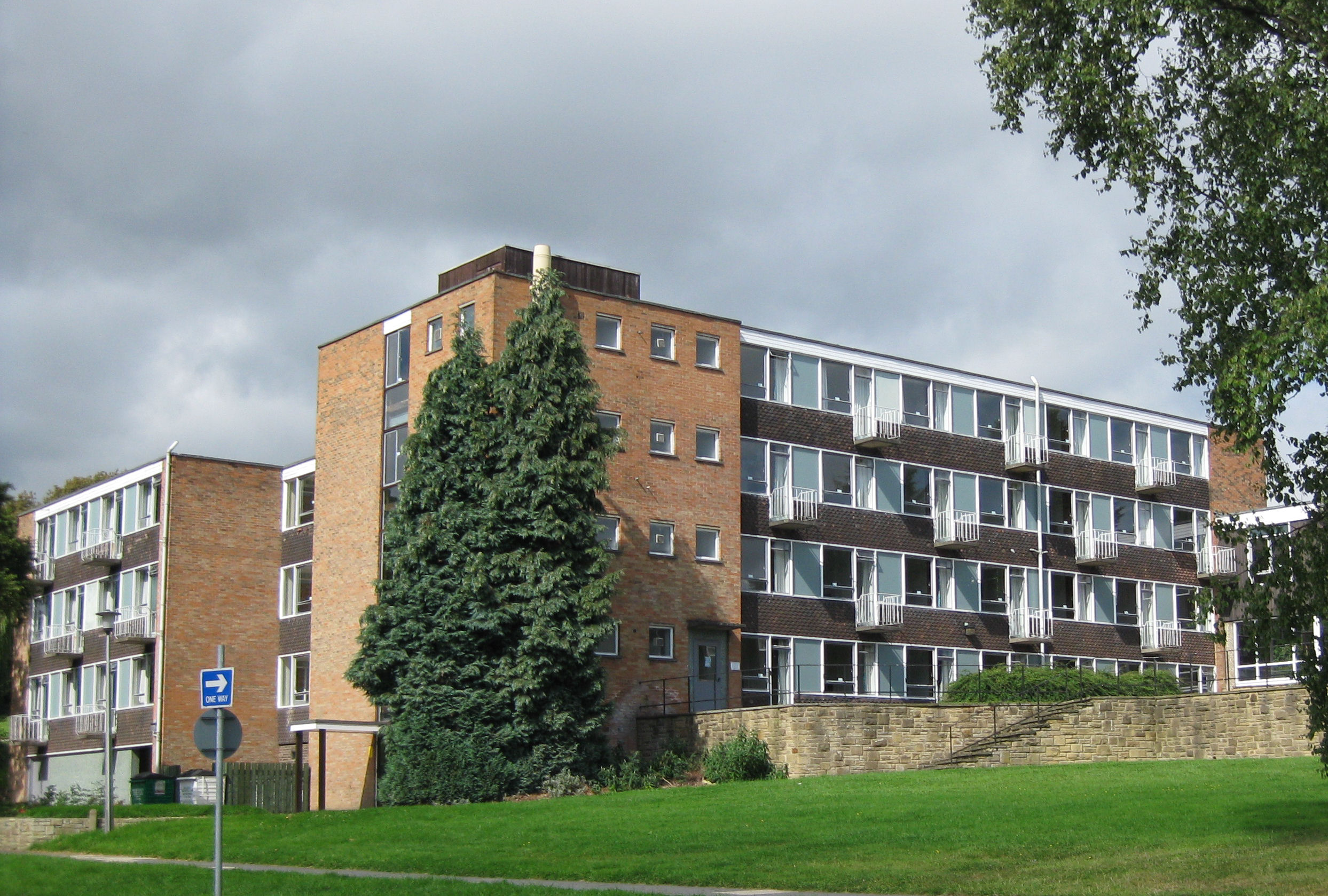 Student flats, Bodington Hall, University of Leeds LS16 5PT